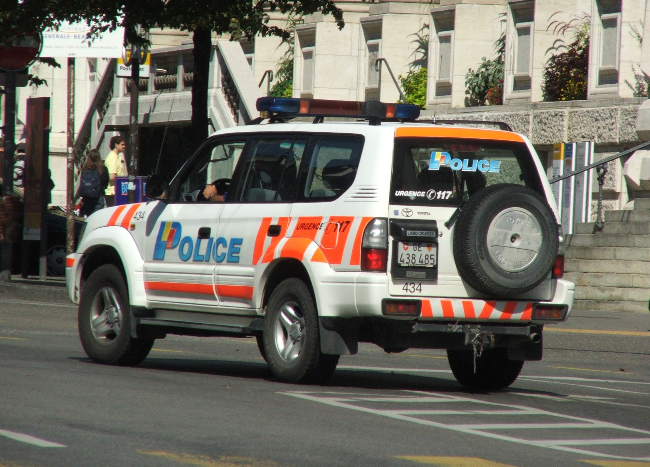 Toyota Land Cruiser vehicle of Cantonal Police of Geneva, Switzerland